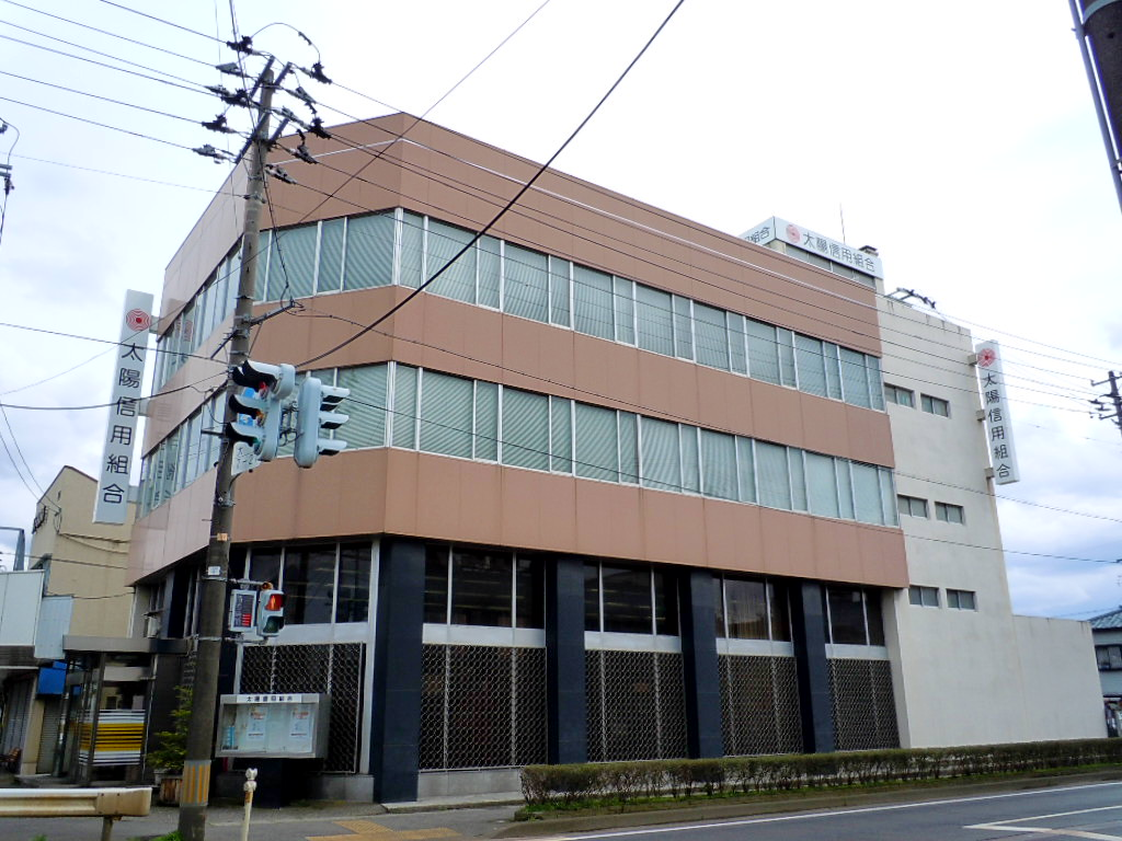 Taiyō Credit Cooperative head store.